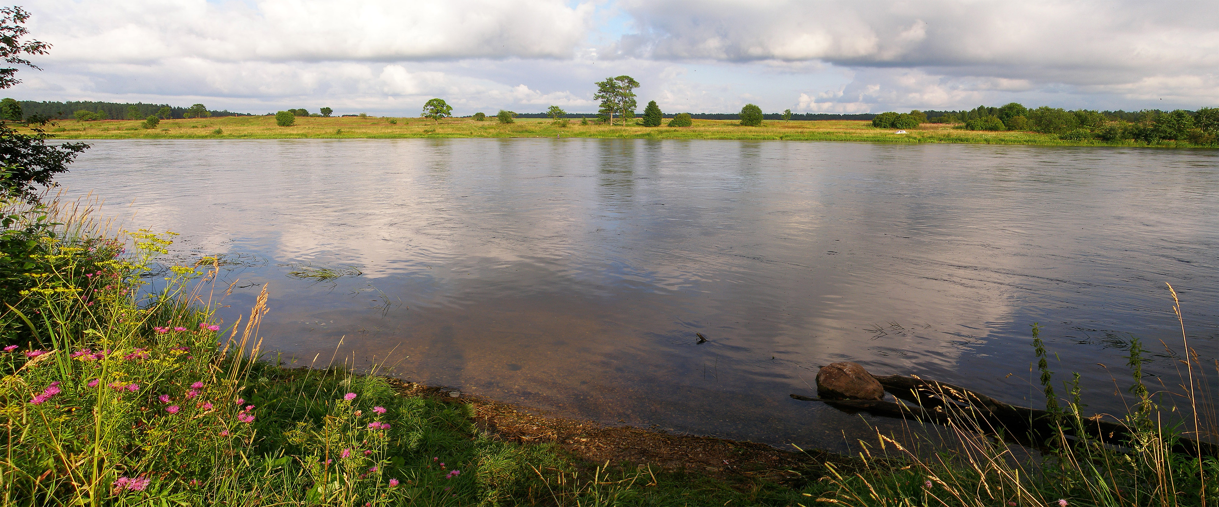 Narva, the border river of Estonia and Russia, near Permisküla. Picture taken from Estonian side. Width of the river around 130 m.